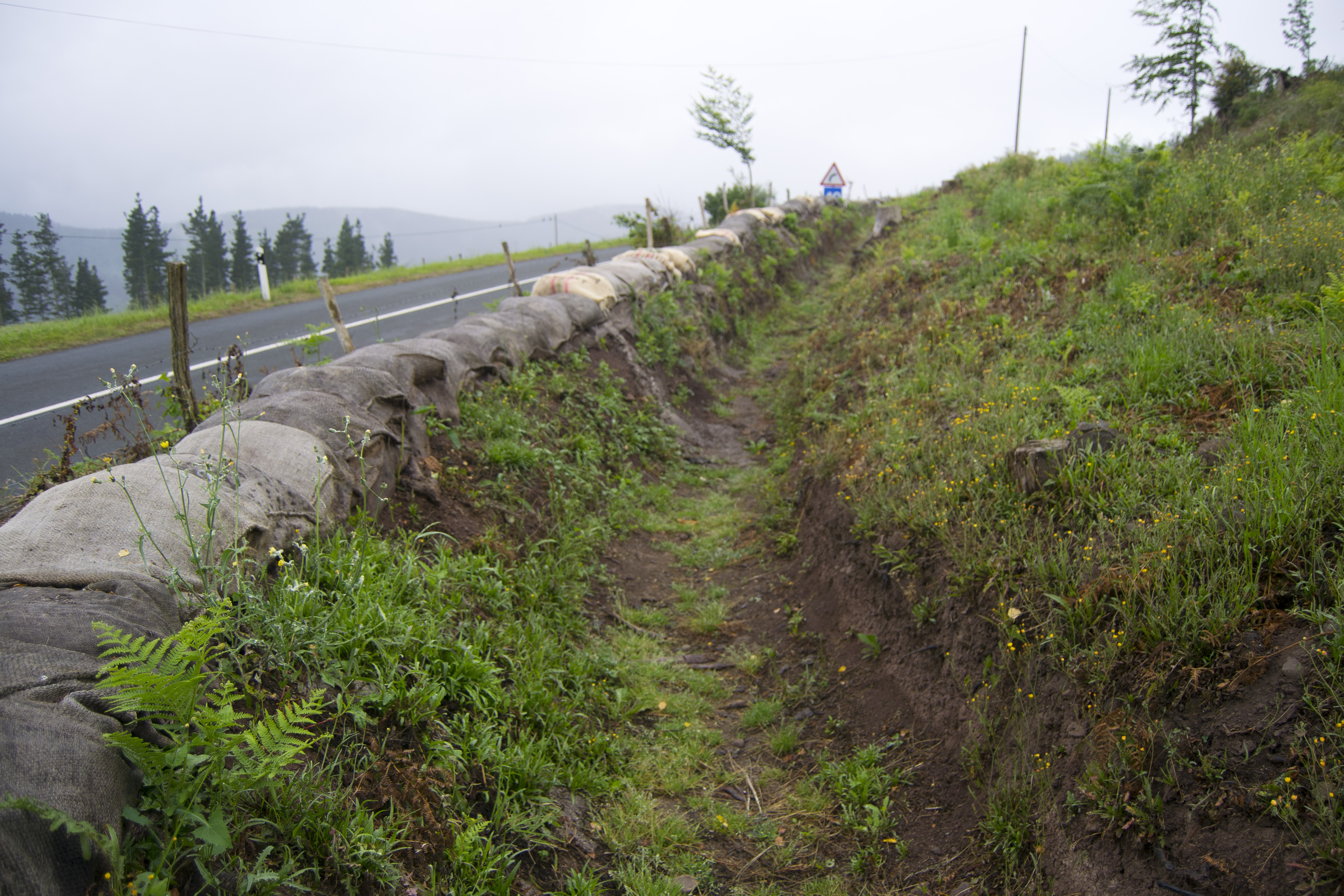 Intxorta Battle's Historic Site (1936-1937). Intxorta, Elgeta. Gipuzkoa, Basque Country.